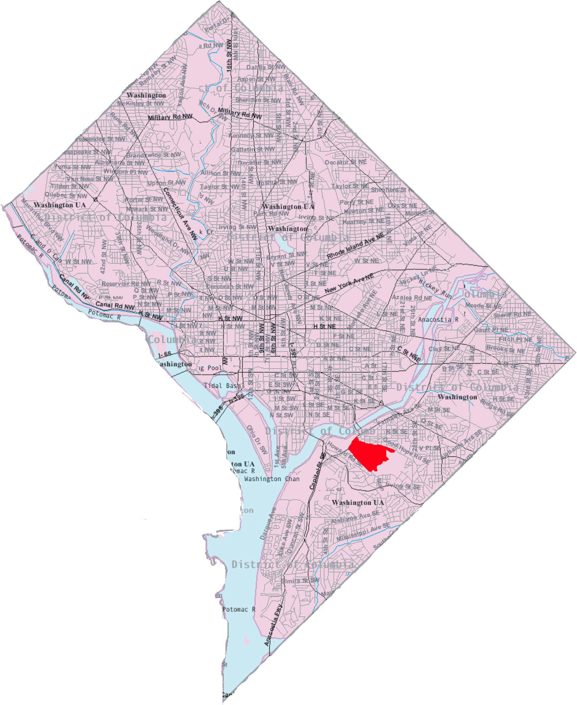 This image is a modified version of a self-generated reference map from the U.S. Census Bureau's American Factfinder at by Wikipedia user Msclguru.